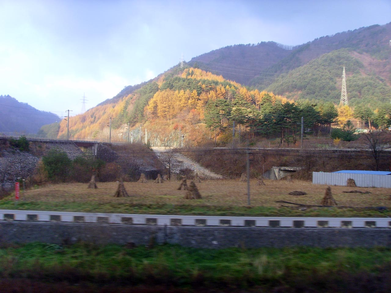 Taebaek Triangle Line (Yeongdong Line, Taebaek Line, Taebaek Direction)